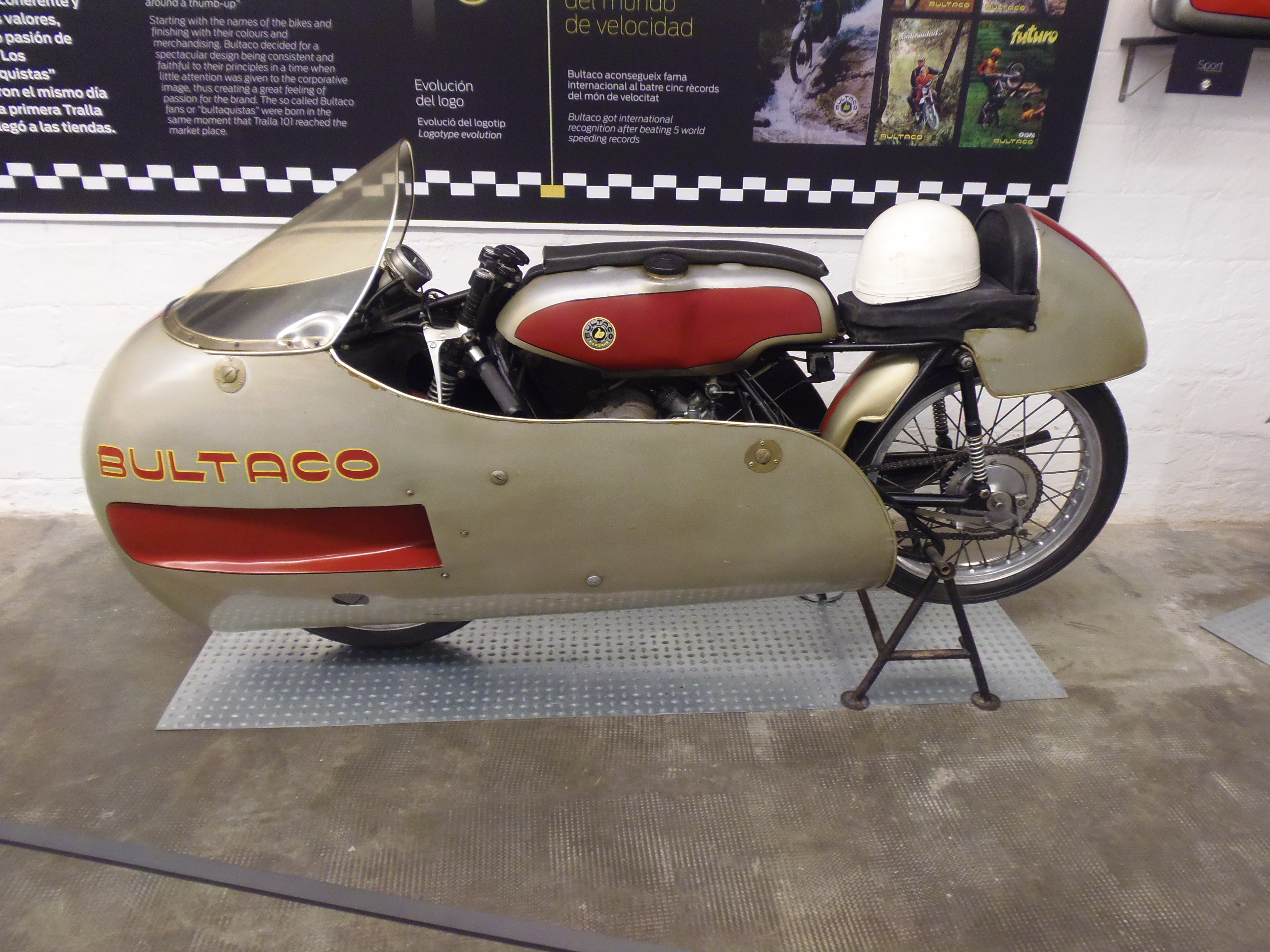 Bultaco Cazarecords ("Records hunter") 175cc. On this bike, Monneret, Cama, Grace, González and Quintanilla broke 5 world records at Montlhéry circuit on 1960